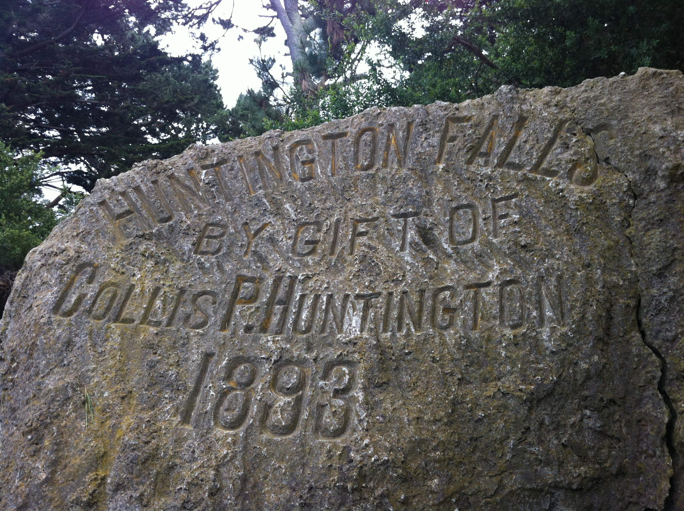 Huntington falls San Francisco Golden Gate Park This file was uploaded via Mobile Web.